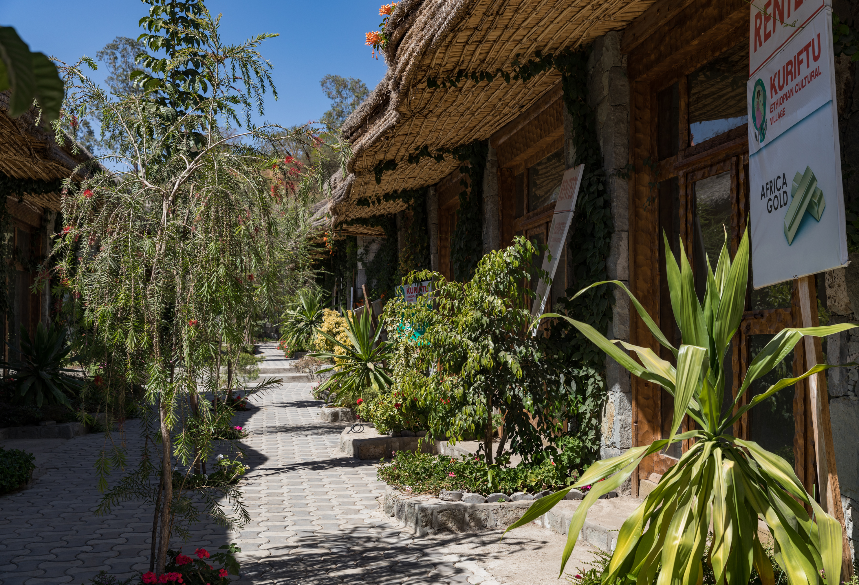 Kuriftu Cultural Village in Bishoftu, Ethiopia